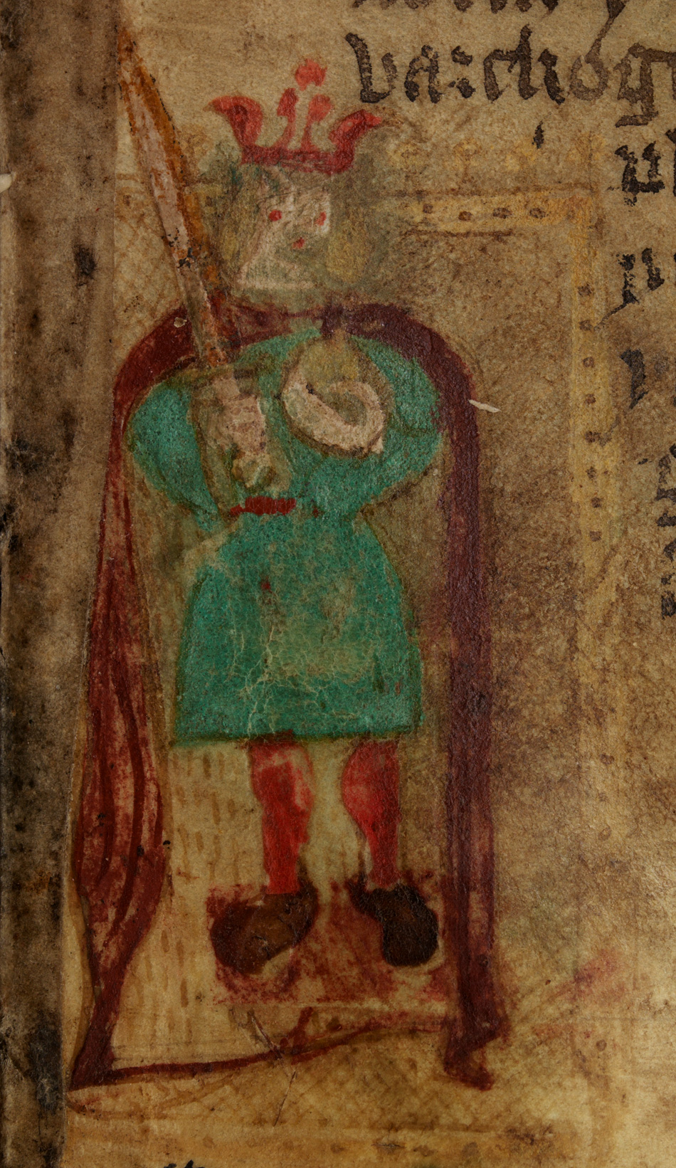 Emrys Wledig. A crude illustration from a 15th century Welsh language version of Geoffrey of Monmouth’s highly influential Historia Regum Britanniae (‘History of the Kings of Britain’)